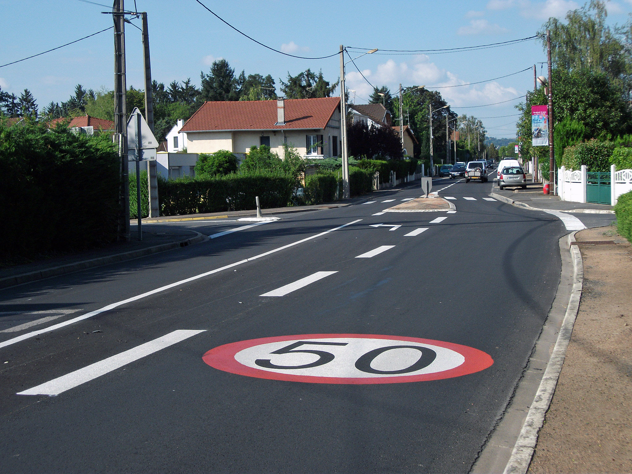 Fernand Auberger Avenue (dep.rd.1093) with maxspeed drawn (50 km/h)